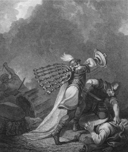 An engraved plate in the Macklin Bible (Cadell & Davies edition of the Apocrypha) after a specially-commissioned painting by Philippe De Loutherbourg. Photographed from the Bowyer bible, Bolton, England. 26.3238. The Sacrilege of Antiochus. During a battle Antiochus carries a large stolen menorah and an embroidered altar cloth over his shoulder to right (1 Macabbees 1:21-24). 1815. Inscriptions: Lettered below image with title, text reference, production detail: "P. J. De Loutherbourg Pinxt.", "W. Bromley Sculpt." and publication line: "London, Published June 1st. 1815, by T. Cadell & W. Davies Strand". Print made by William Bromley. Dimensions: Height: 480 millimetres; width: 380 millimetres.